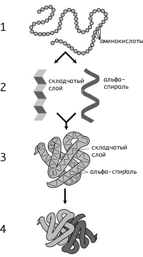 This image shows the structure hierarchy of proteins